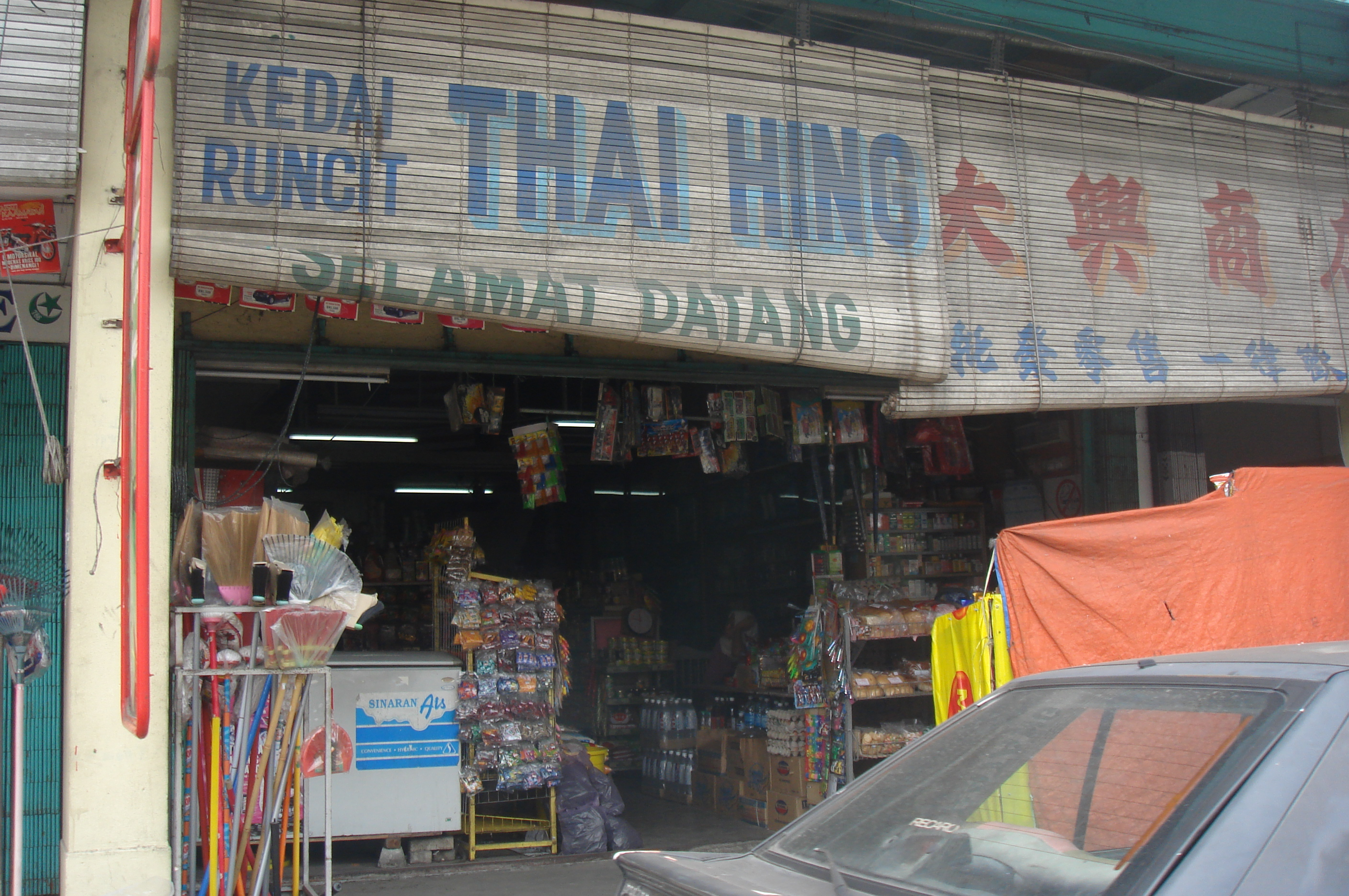 A typical small-town sundry shop owned by ethnic Hakka Chinese in Papar.